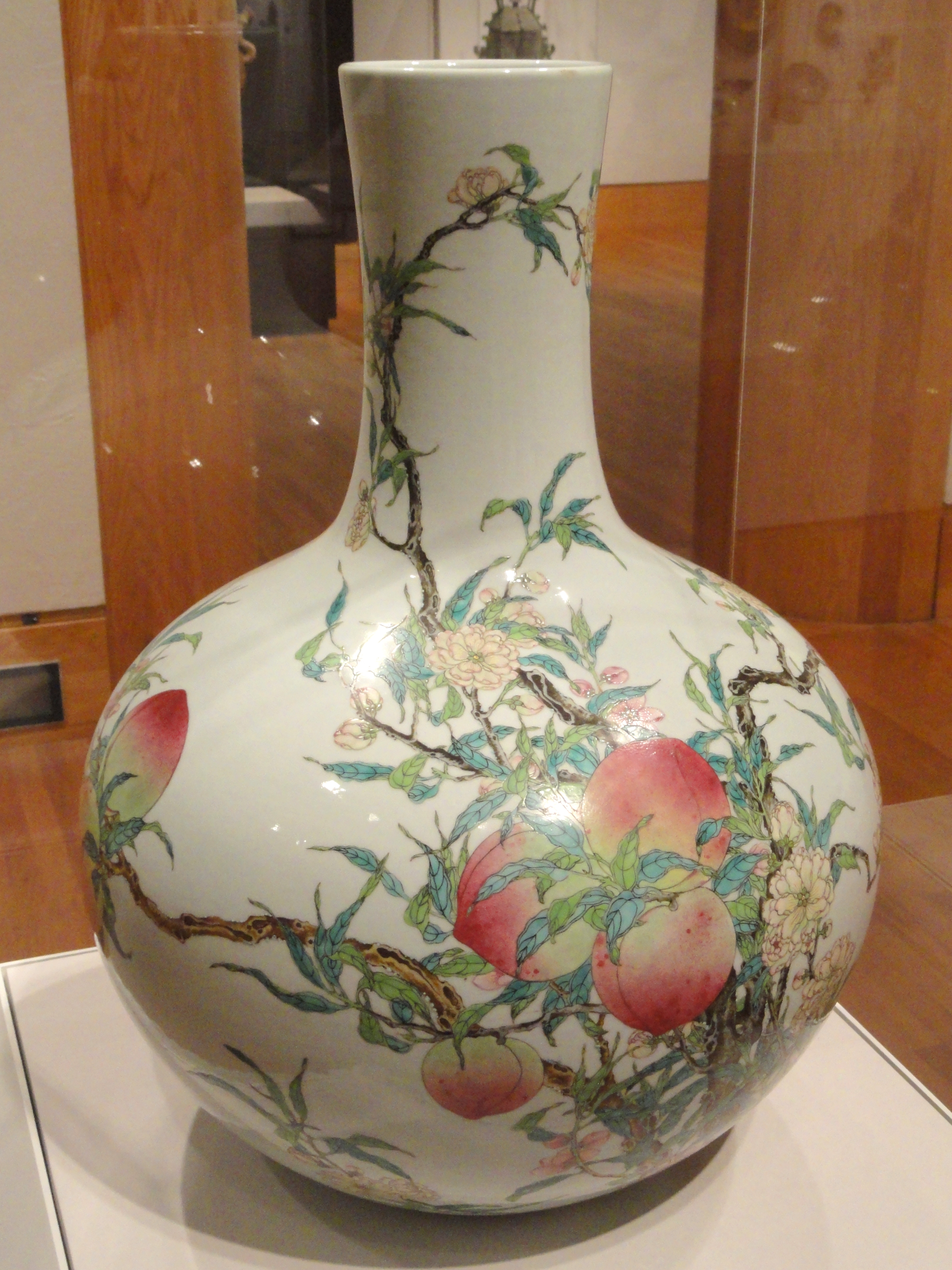 Exhibit in the Sackler Museum, Harvard University, Cambridge, Massachusetts, USA. The museum permitted photography of this artwork without restriction. This artwork is in the public domain because the artist died more than 70 years ago.